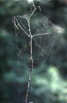 web of Tetragnatha ceylonica from Okinawa.